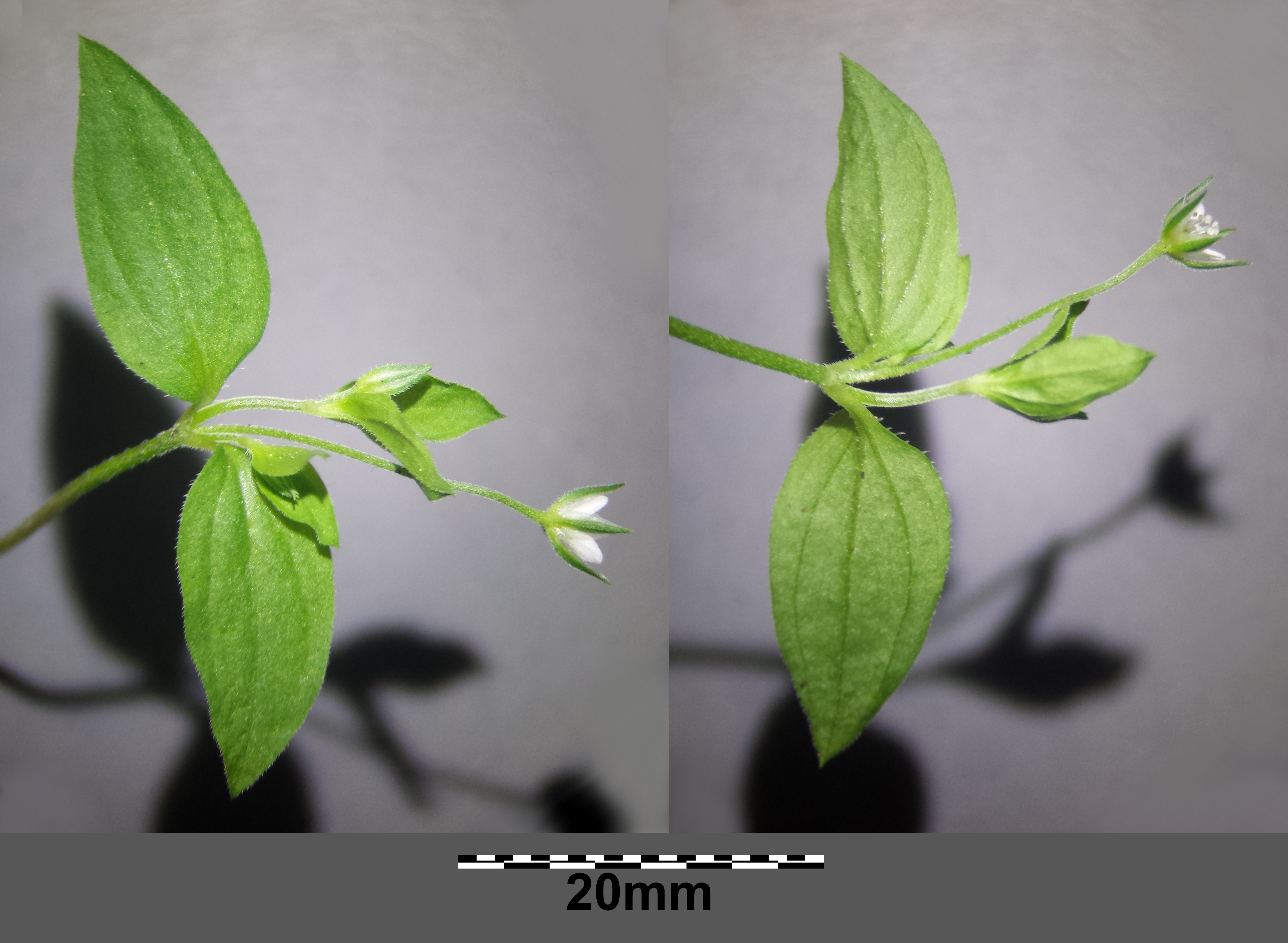 Inflorescence Taxonym: Moehringia trinervia ss Fischer et al. EfÖLS 2008 ISBN 978-3-85474-187-9 Location: near Karnabrunner, district Korneuburg, Lower Austria - ca. 300 m a.s.l. Habitat: path within a wood